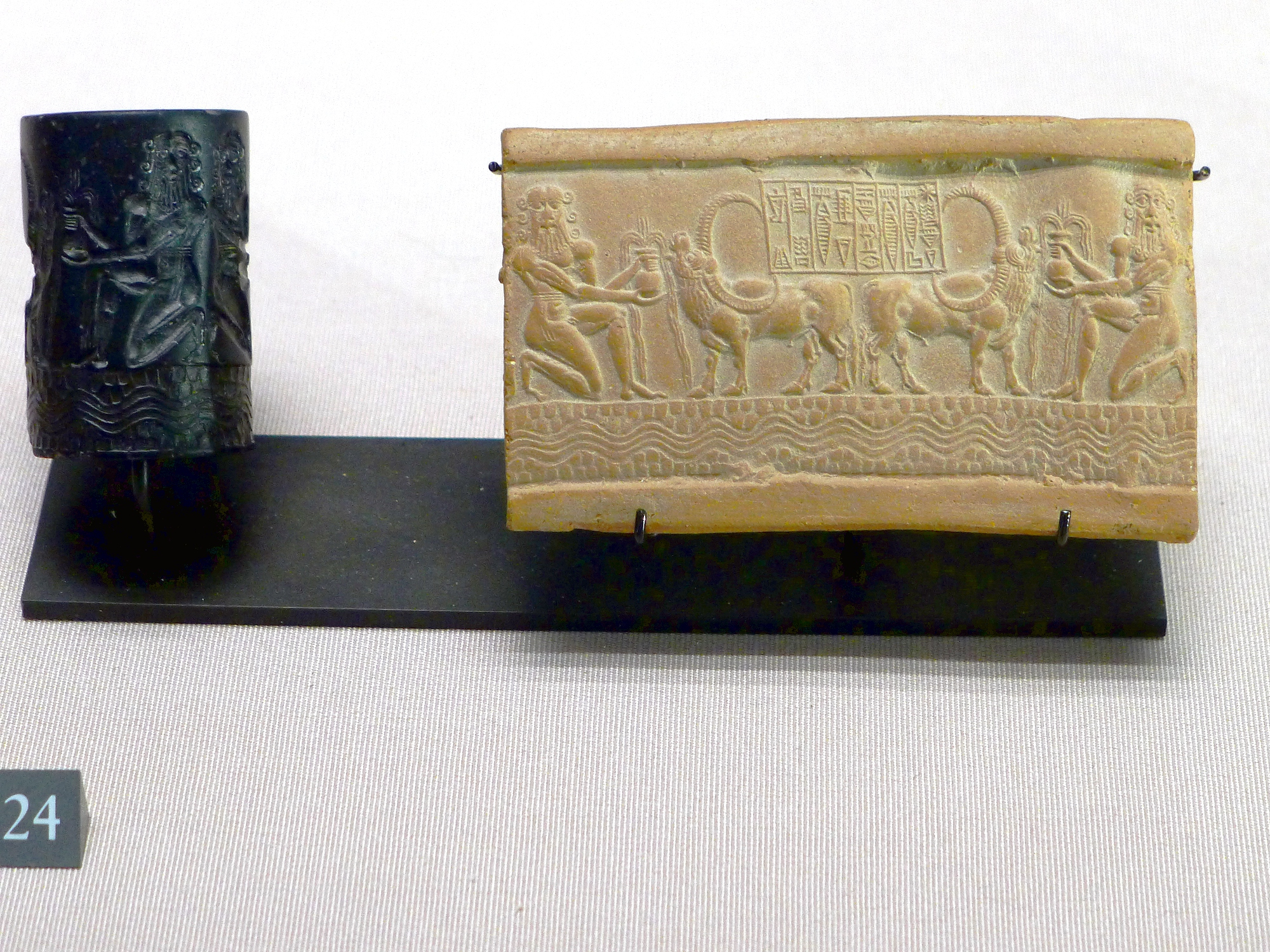 Cylinder seal n°24.